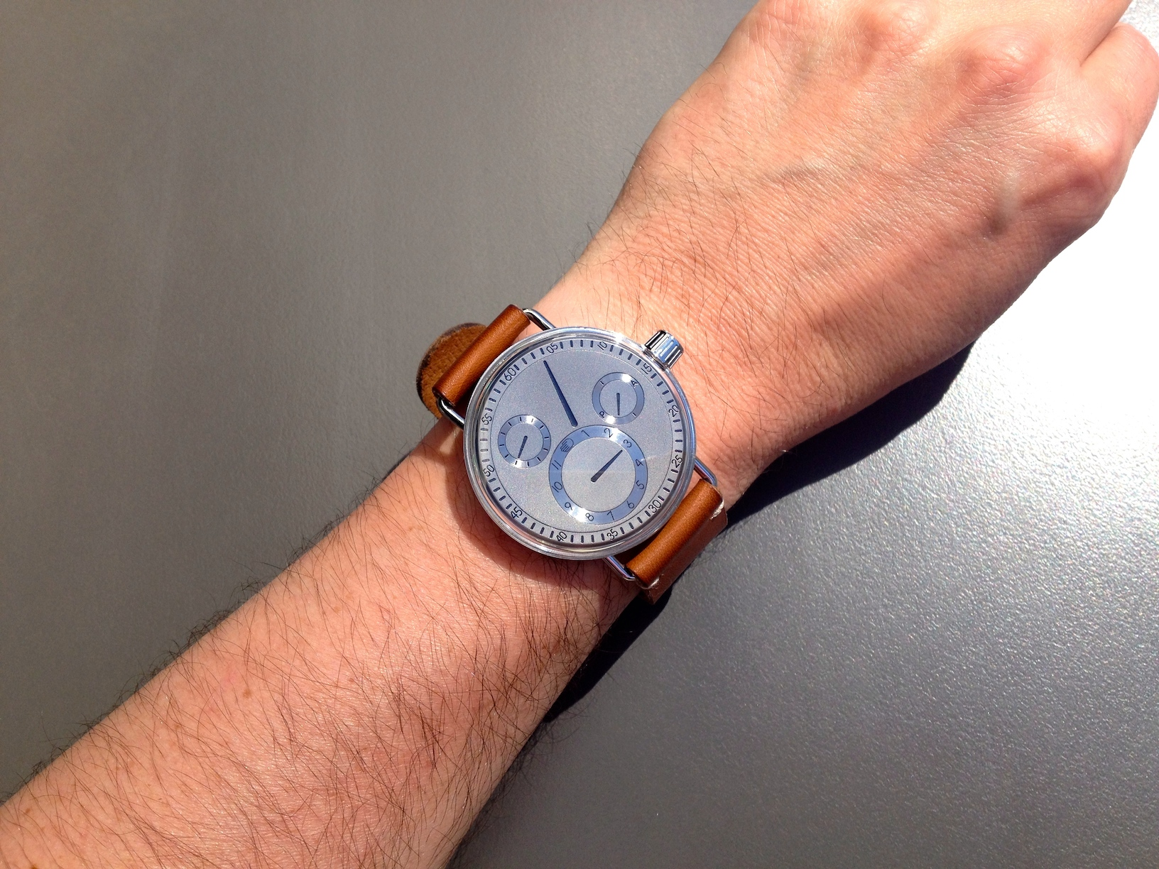 Ressence's SeriesOne model #1002